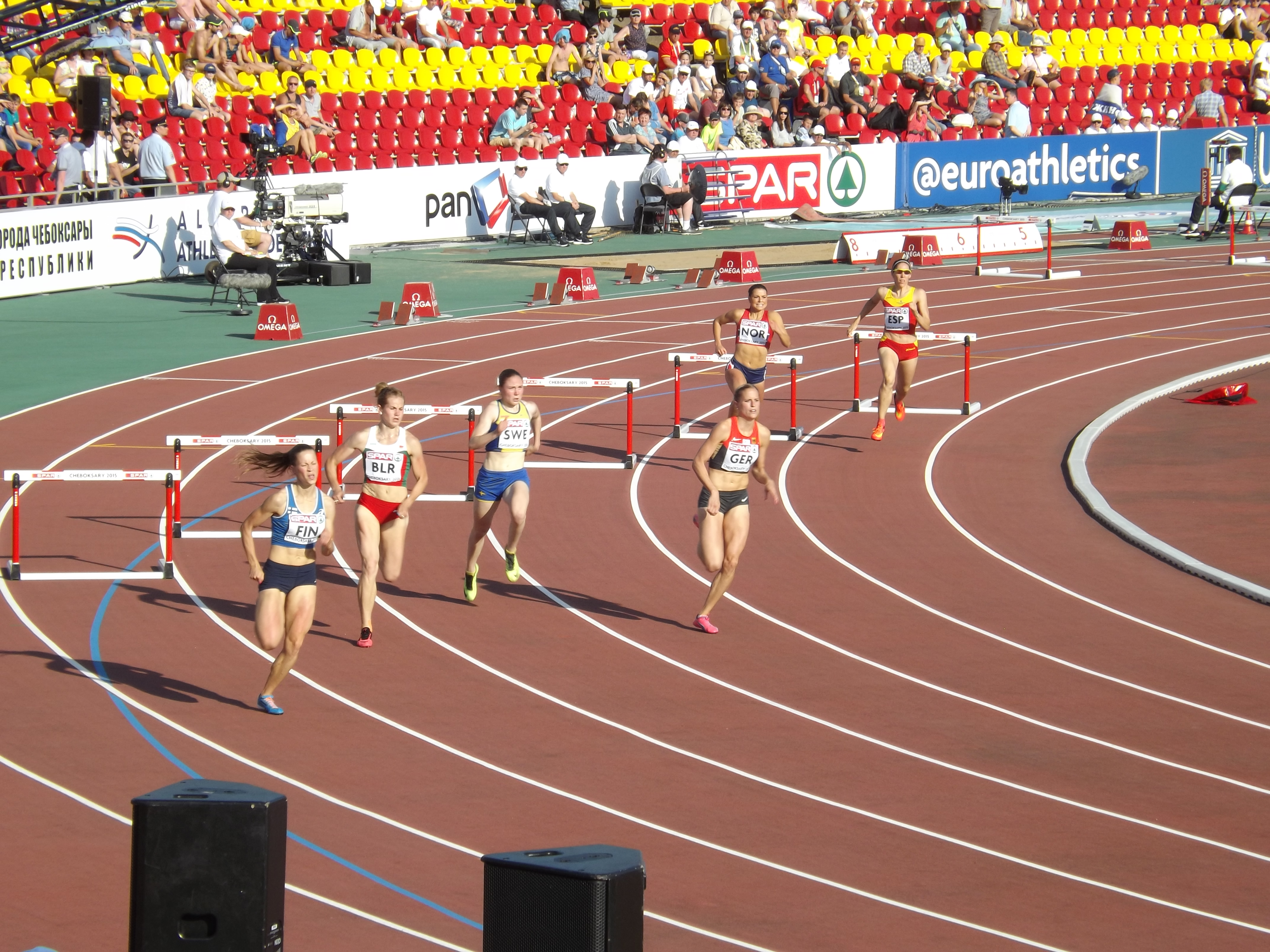 Women 400 metres hurdles heat 1 during 2015 European Team Champioships